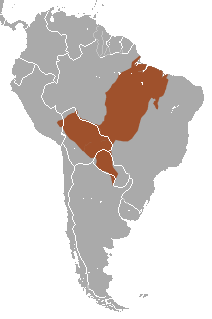 Azara's Night Monkey (Aotus azarae) range